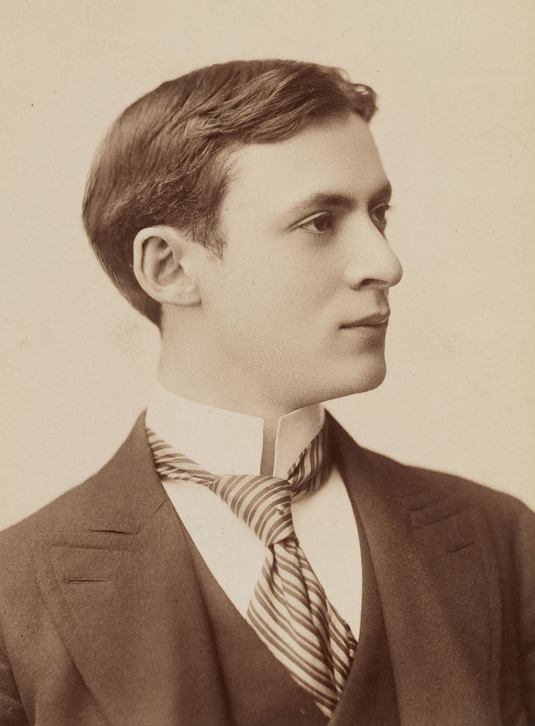 Cabinet card image of American stage actor and lyricist Edward R. Abeles (1869-1919). From a collection dating to 1918. Cropped version. TCS 1.25, Harvard Theatre Collection, Harvard University